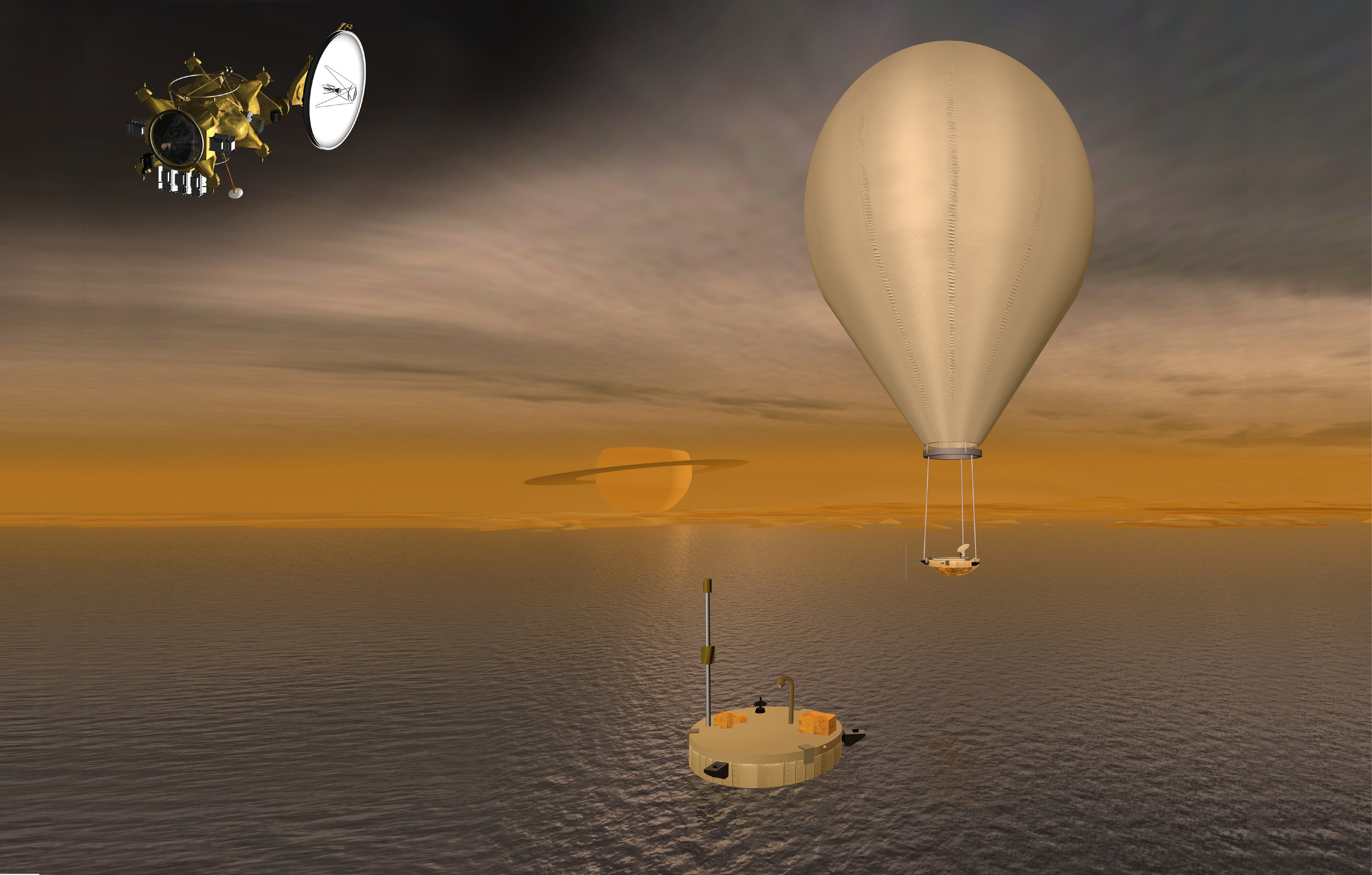 Schematic diagram of TSSM components, future mission in study phase to return to Saturn, Enceladus and Titan